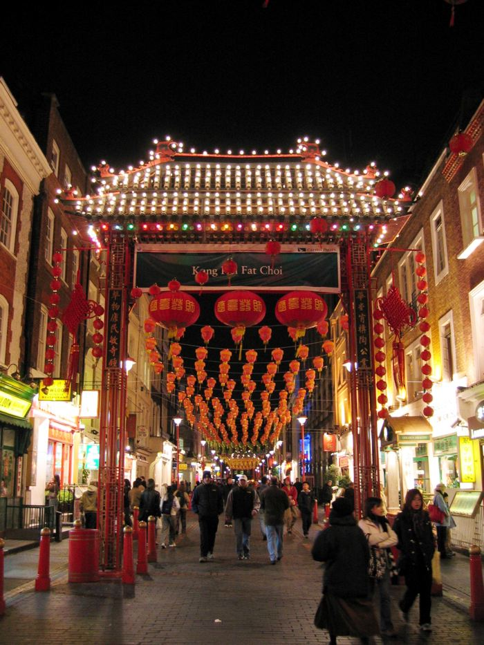 Entrance to Gerrard Street, Chinatown, London. Decorated for Chinese New Year 2004.